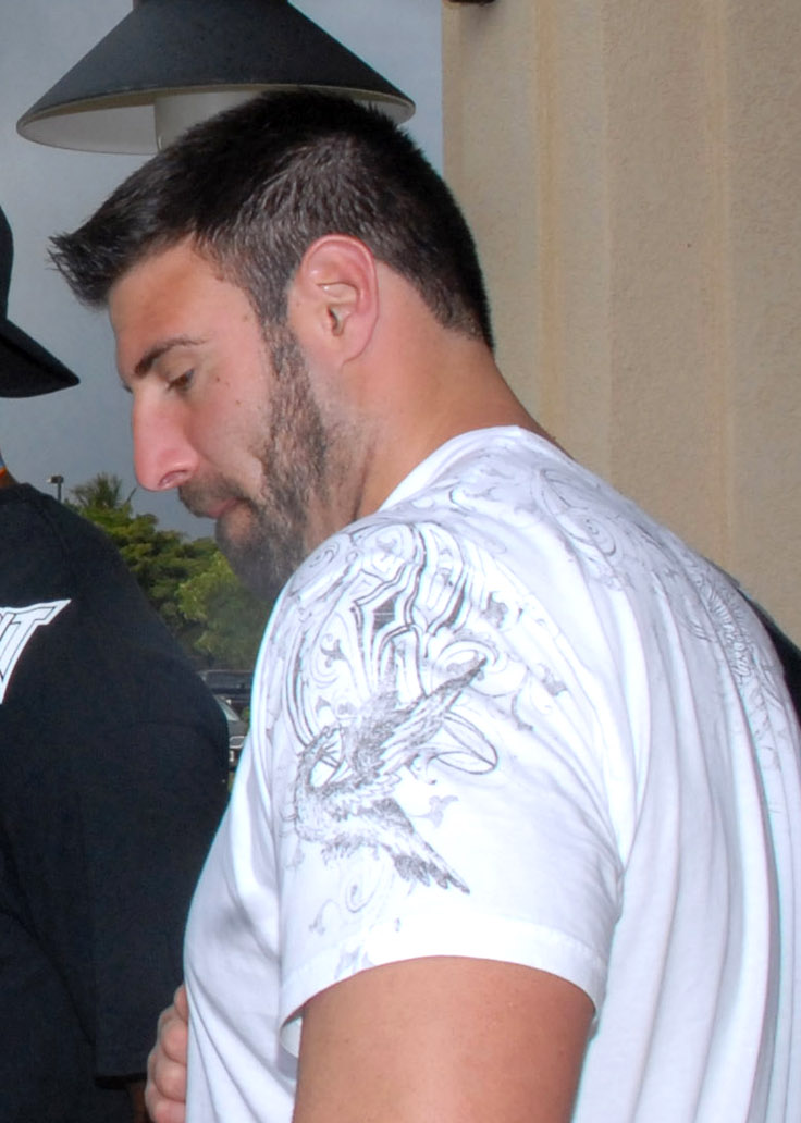 San Diego Chargers wider receiver Kassim Osgood (second from right) fields a question from an Army reporter after flying the C-17 Globemaster III simulator Feb. 7 at Hickam Air Force Base, Hawaii. New England Patriots Mike Varbel (far right) and his son Tyler watch along with Patriots center Dan Koppen. The Pro Bowl players appearance at Hickam AFB included a chance to fly the C-17 simulator, a tour of a C-17 and a speech to children in the before and after school youth center children program.